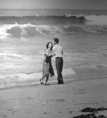 "Tragedy by the Sea", photograph of John & Lillian McDonald minutes after their 19-month-old son, Michael, was swept out to sea and presumably drowned in Hermosa Beach, California. This photograph won the 1955 Pulitzer Prize for Photography.